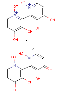 structure of Orellanine